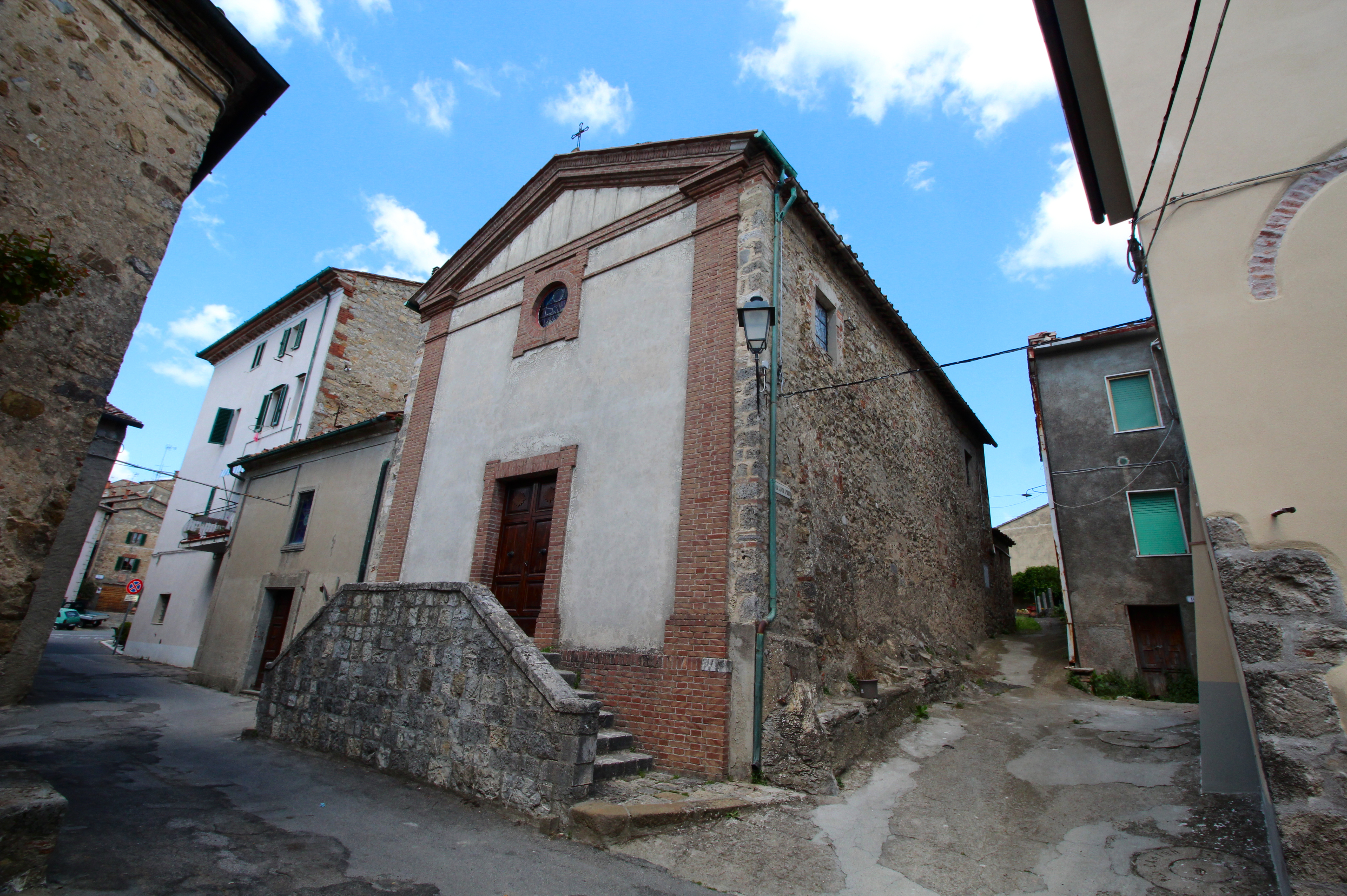 Church Santa Maria Assunta, Ciciano, hamlet of Chiusdino, Province of Siena, Tuscany, Italy